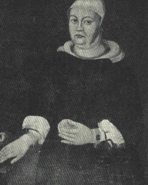 Margareta Raumanna, wife of Gabriel Peldan